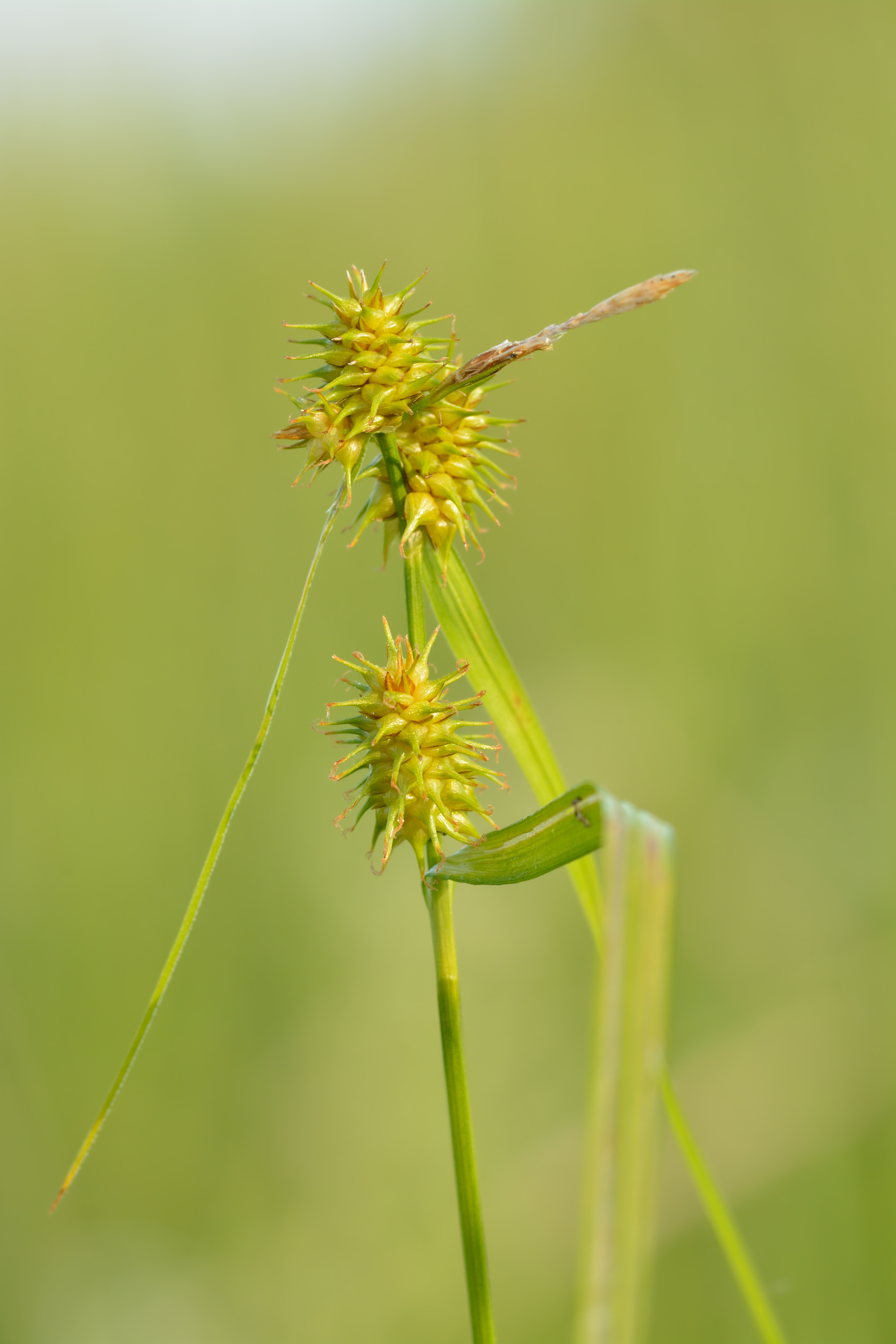 Large yellow sedge (Carex flava). Meadow in Illurmaa village, Northwestern Estonia.